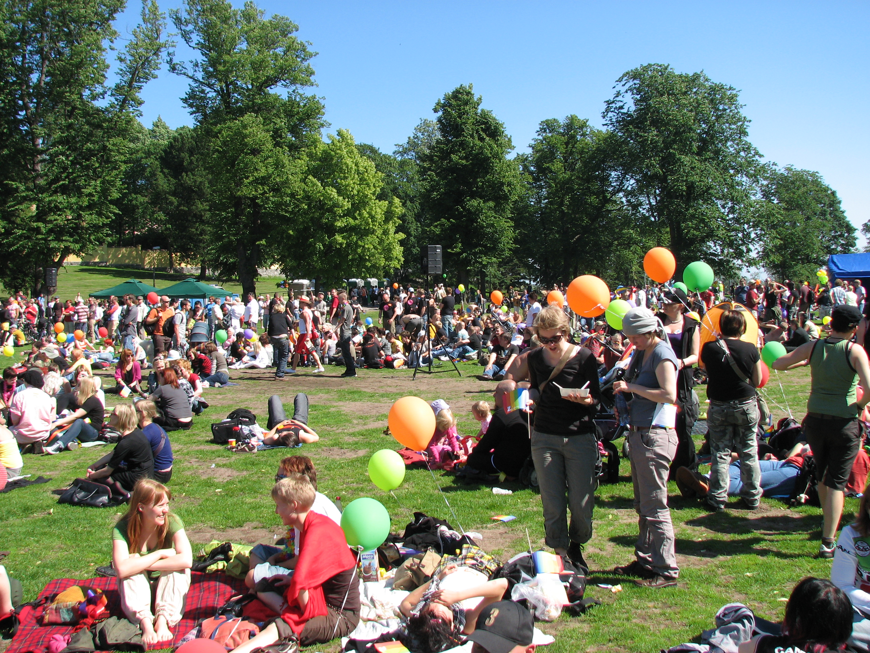 People having a picnic at the Helsinki Pride 2007 event in Kaivopuisto, Helsinki. Photograph taken by me on June 30, 2007.